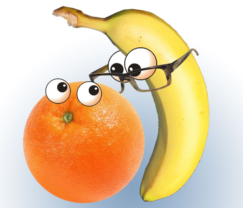 "Stop reading over my shoulder!" said the orange. "You don’t have a shoulder," answered the banana, "cause you’re an orange!"